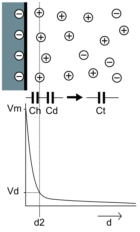 Electric double-layer (Stern's model) No text